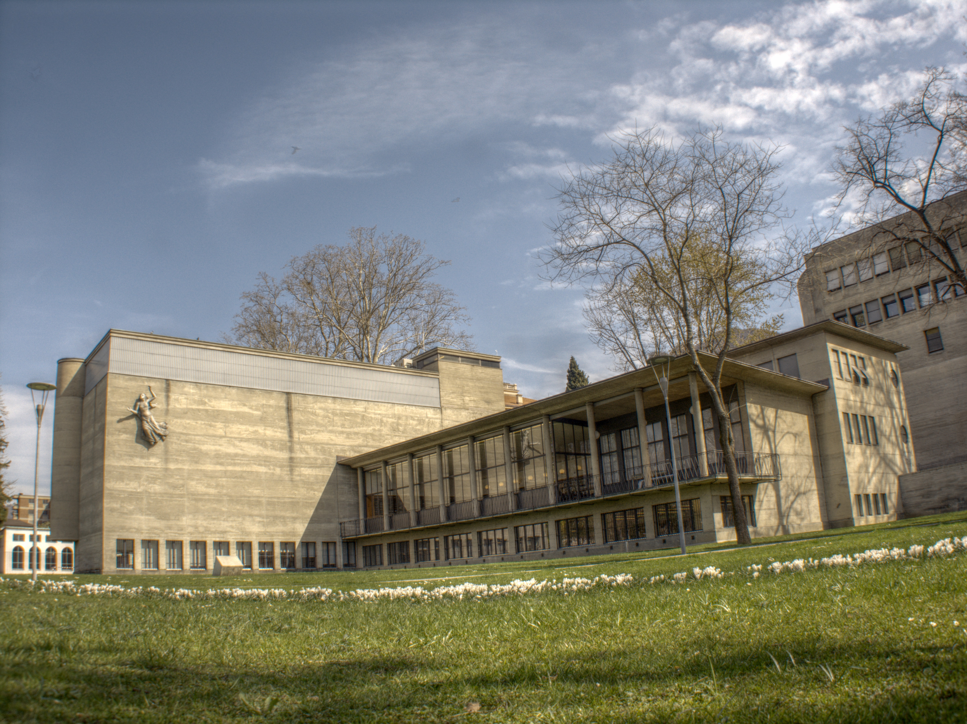 Lugano, Tessin, Switzerland - Cantonal library taken from the inside of Ciani park